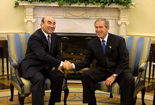 President George W. Bush hosts a visit by President Askar Akayev of the Kyrgyz Republic to the Oval Office.